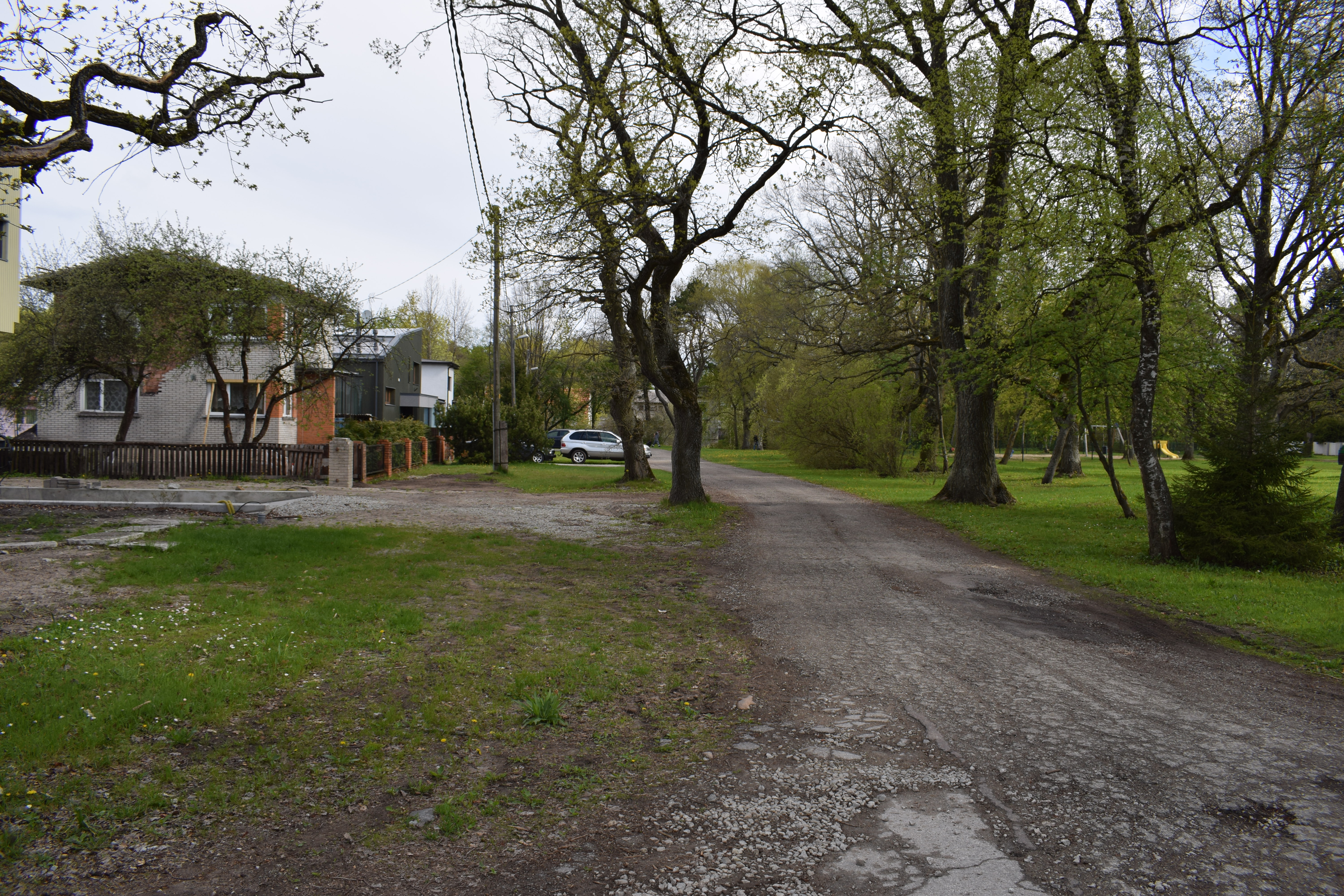 Tammetõru street